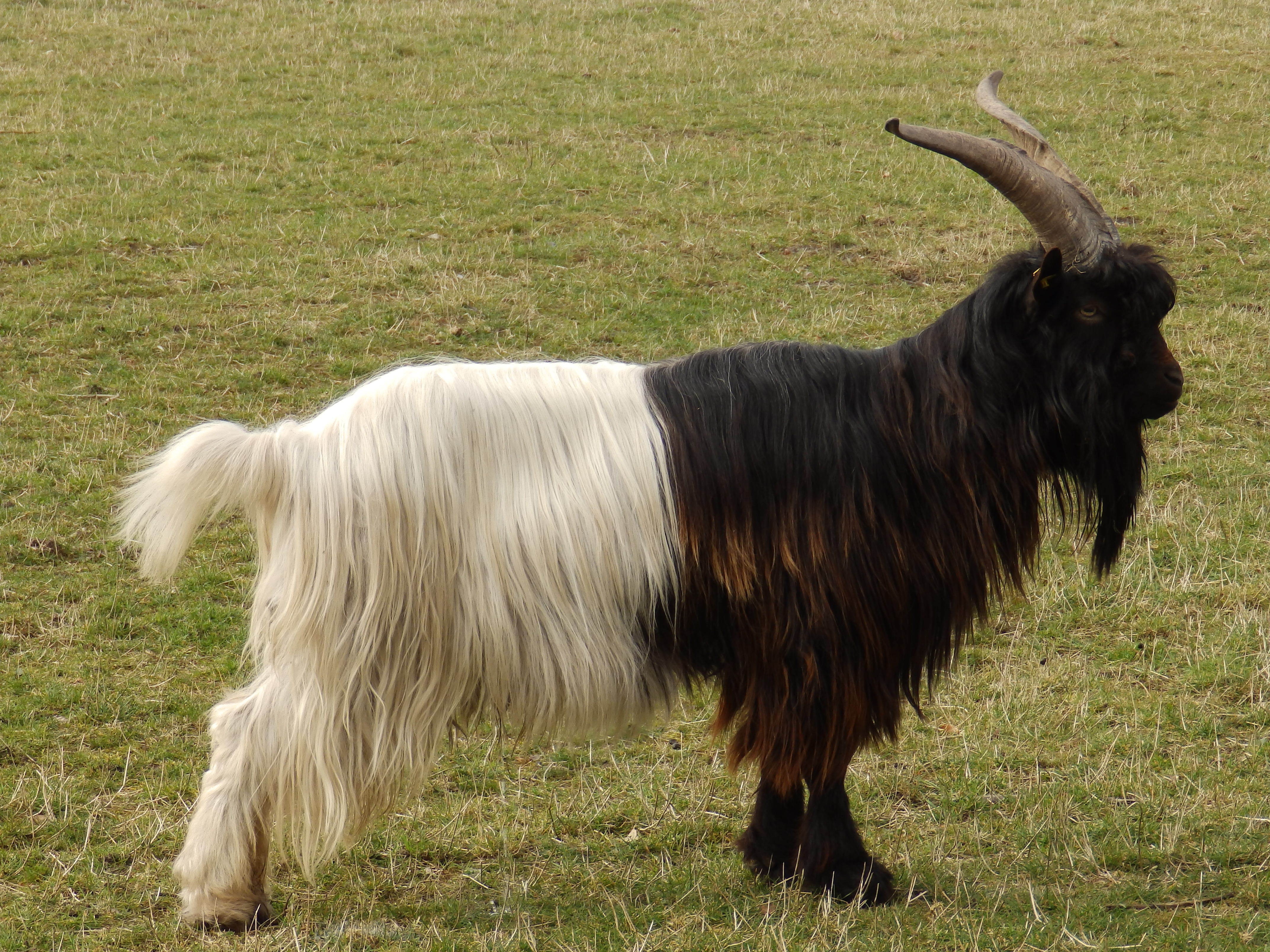 Valais Blackneck Goat, side-view, Foto taken in Sittensen in Lower Saxonia / Nothern Germany